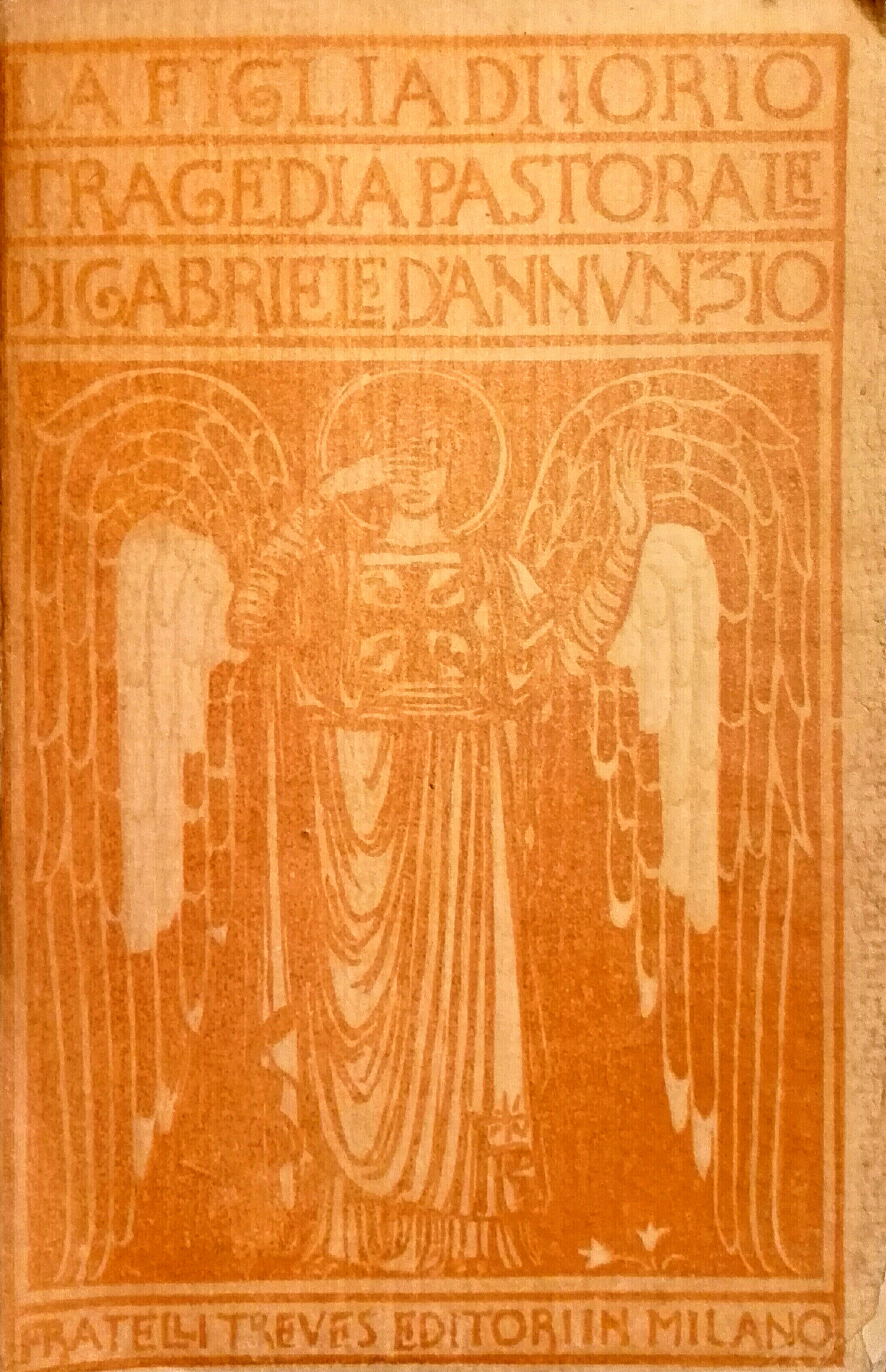 The Daughter of Iorio, D'annunzio,1904